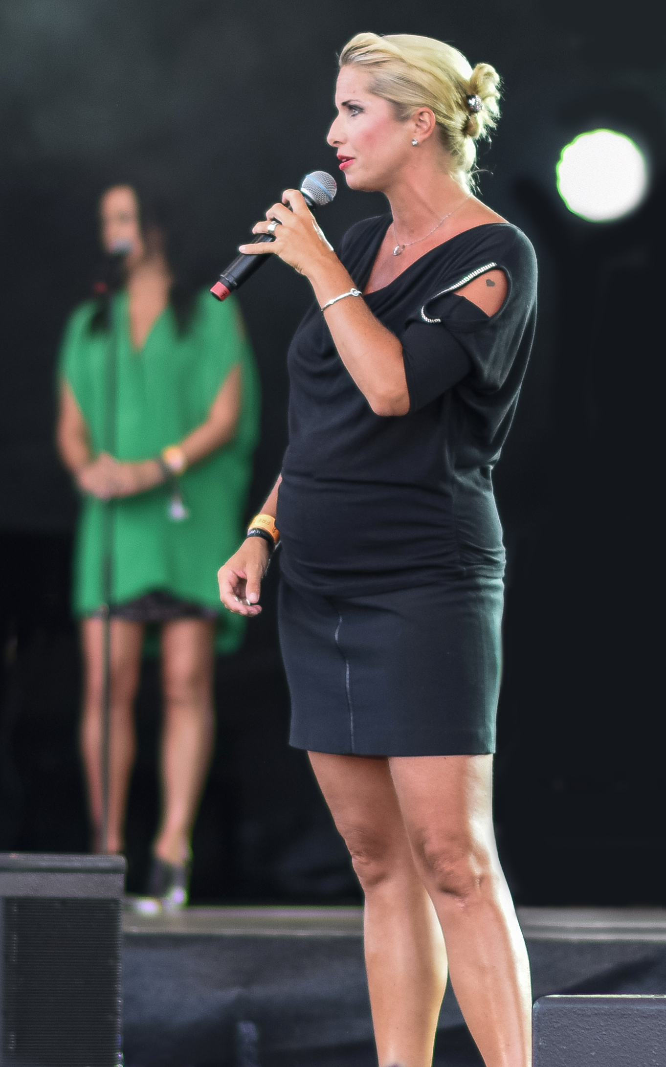 Viktoria Tolstoy July 2014